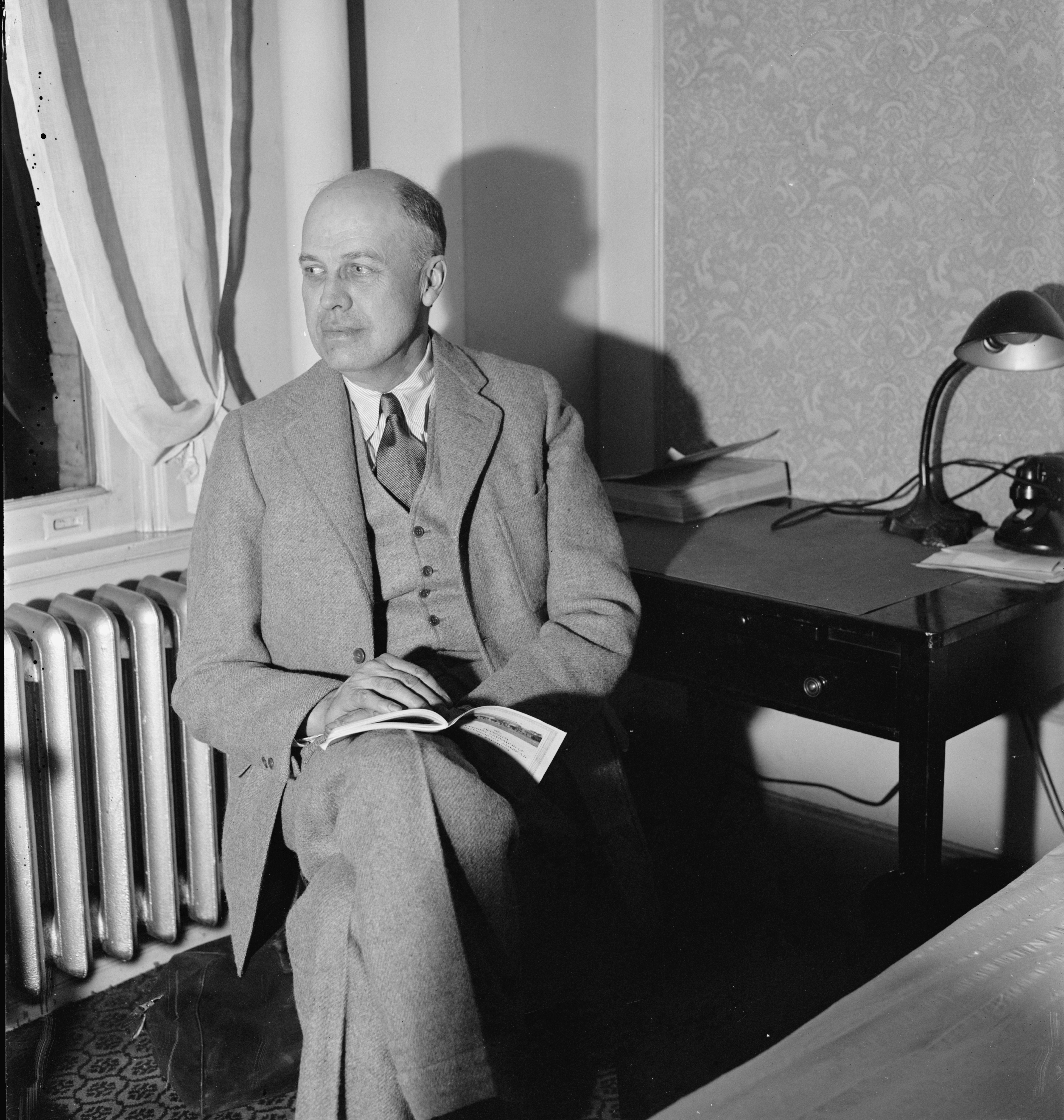 Title: Edward Hopper, New York artist Abstract/medium: 1 negative : glass ; 4 x 5 in. or smaller